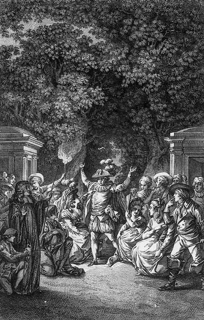 Illustration from La Folle journée ou Le Mariage de Figaro, showing the last Act of the play.